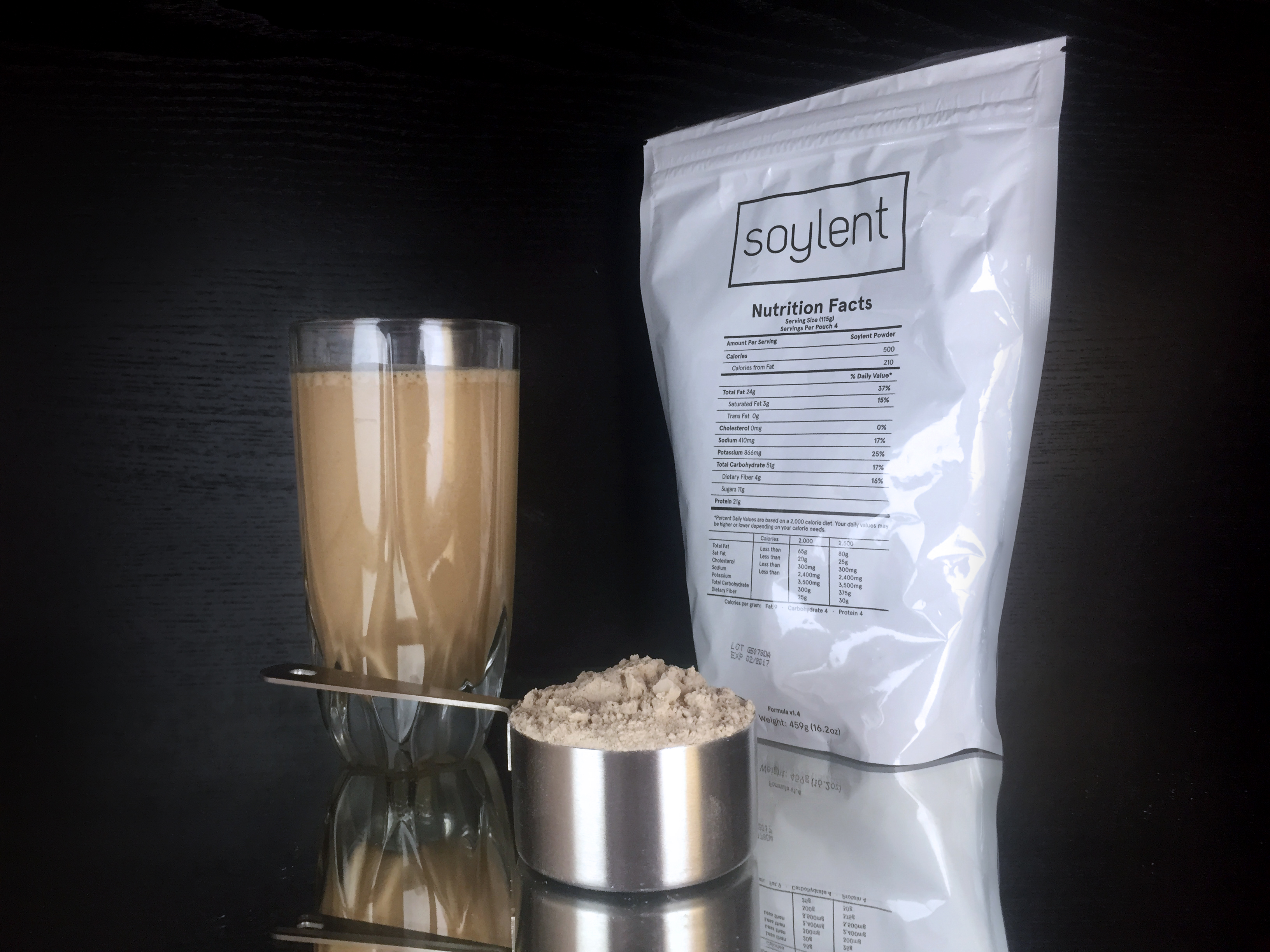 A prepared glass of Soylent (Formula 1.4), a scoop of Soylent powder, and a bag of Soylent powder.